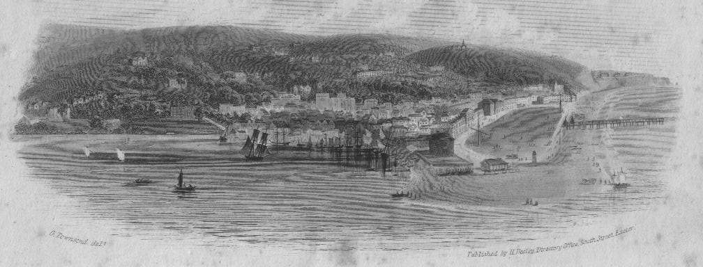 A view across the Teign estuary in South Devon looking towards the site of Woodway House in Teignmouth during the mid 19th century.